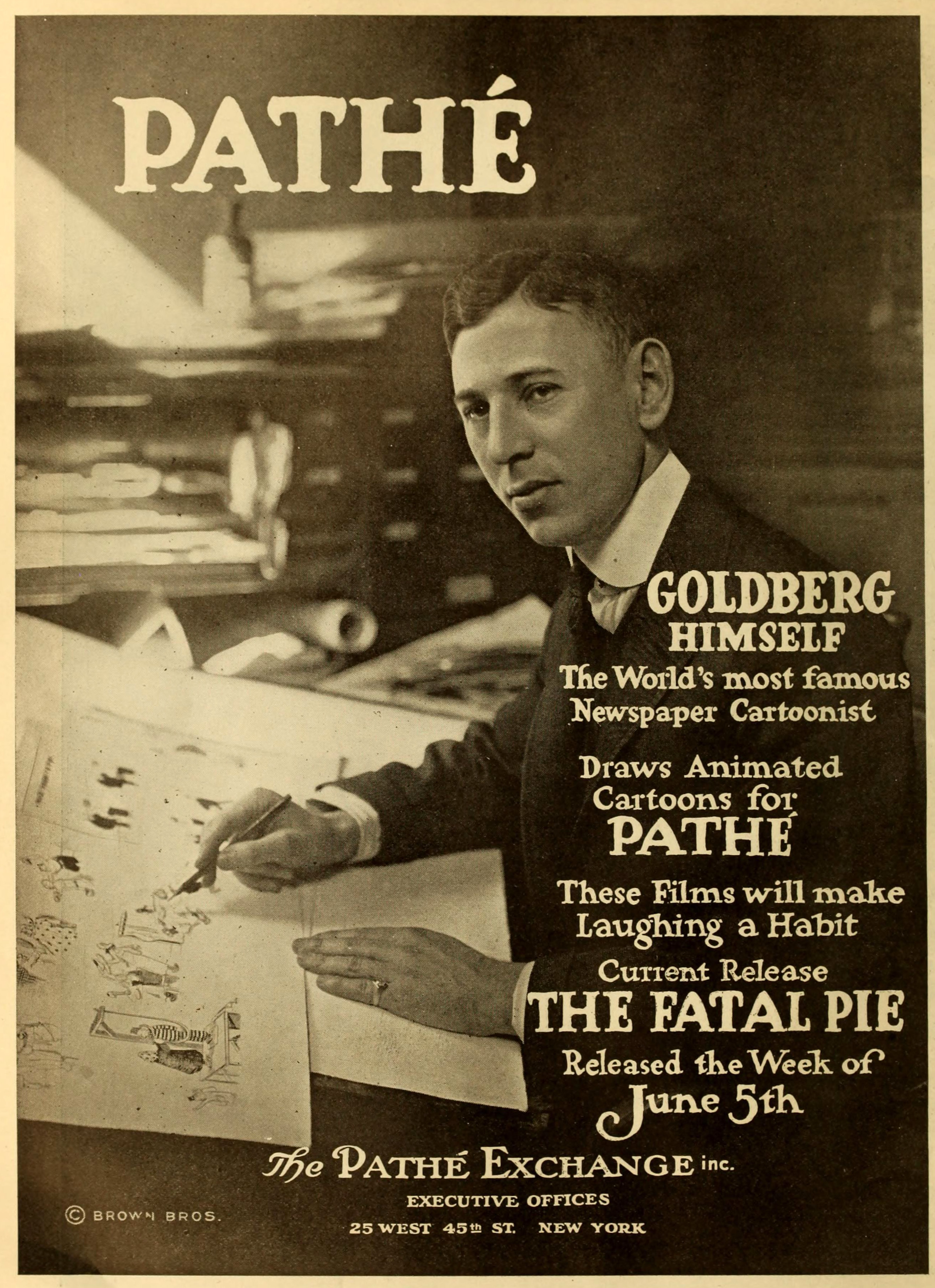 Advertisement in The Moving Picture World